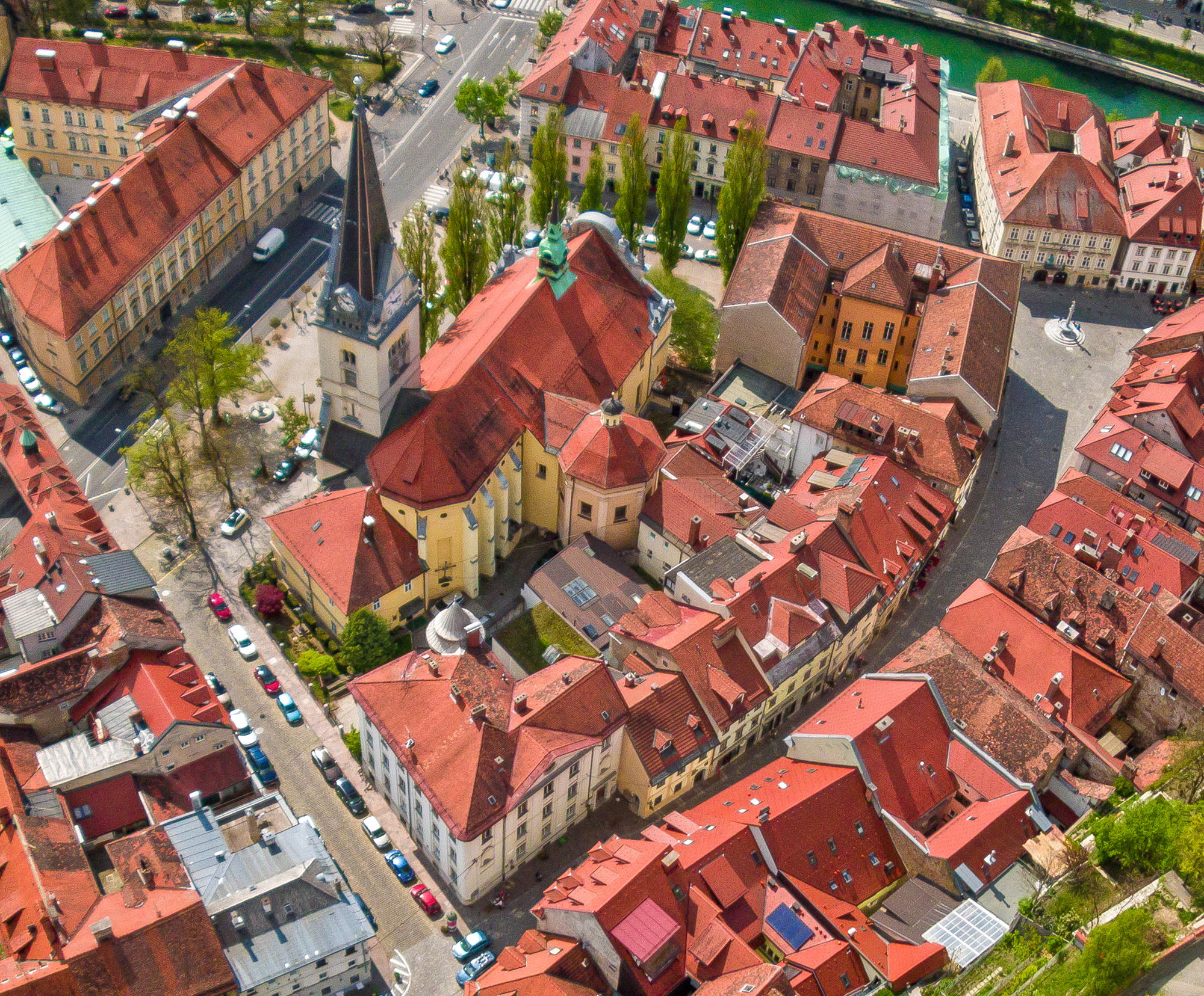 The tallest spire in town: church of St. James (Šentjakobska cerkev), Ljubljana - a whooping 65 m - and the maze of medieval houses sprawling from the foot of Castle hill towards the banks of Ljubljanica.